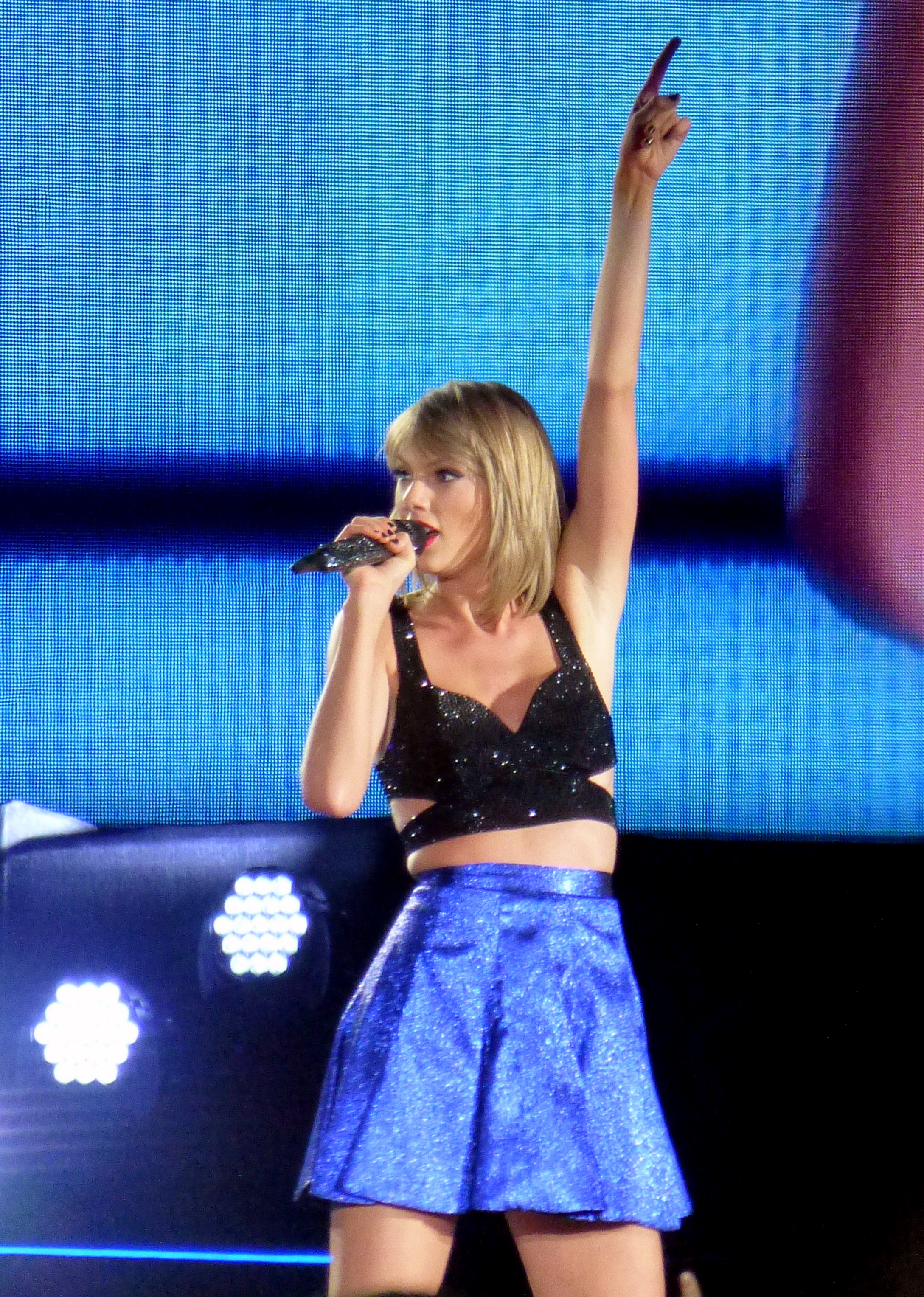 Taylor Swift 1989 Tour at Ford Field in Detroit, 5/30/15